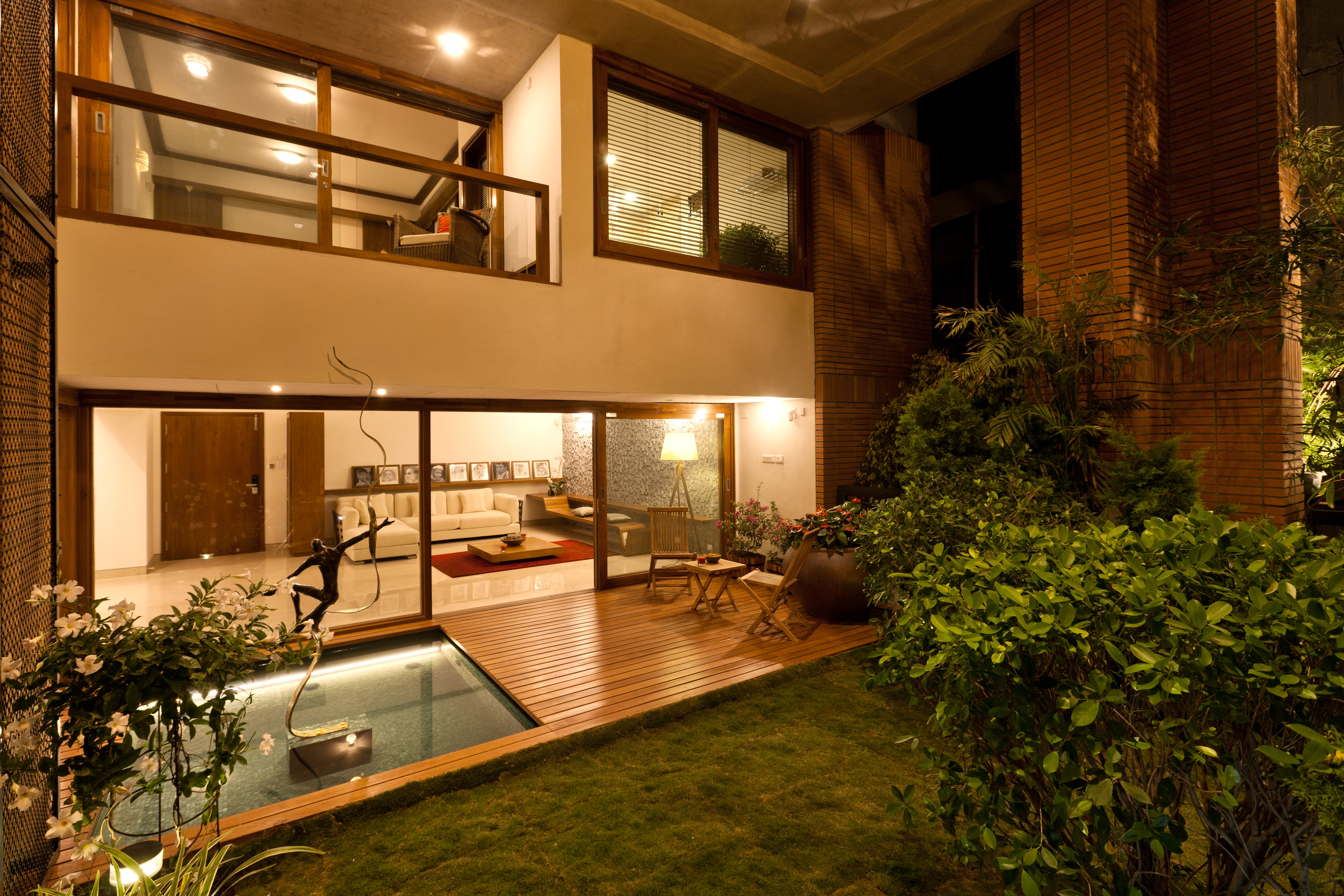 View of garden at The Magic Faraway Tree, South Bangalore Kamal Sagar